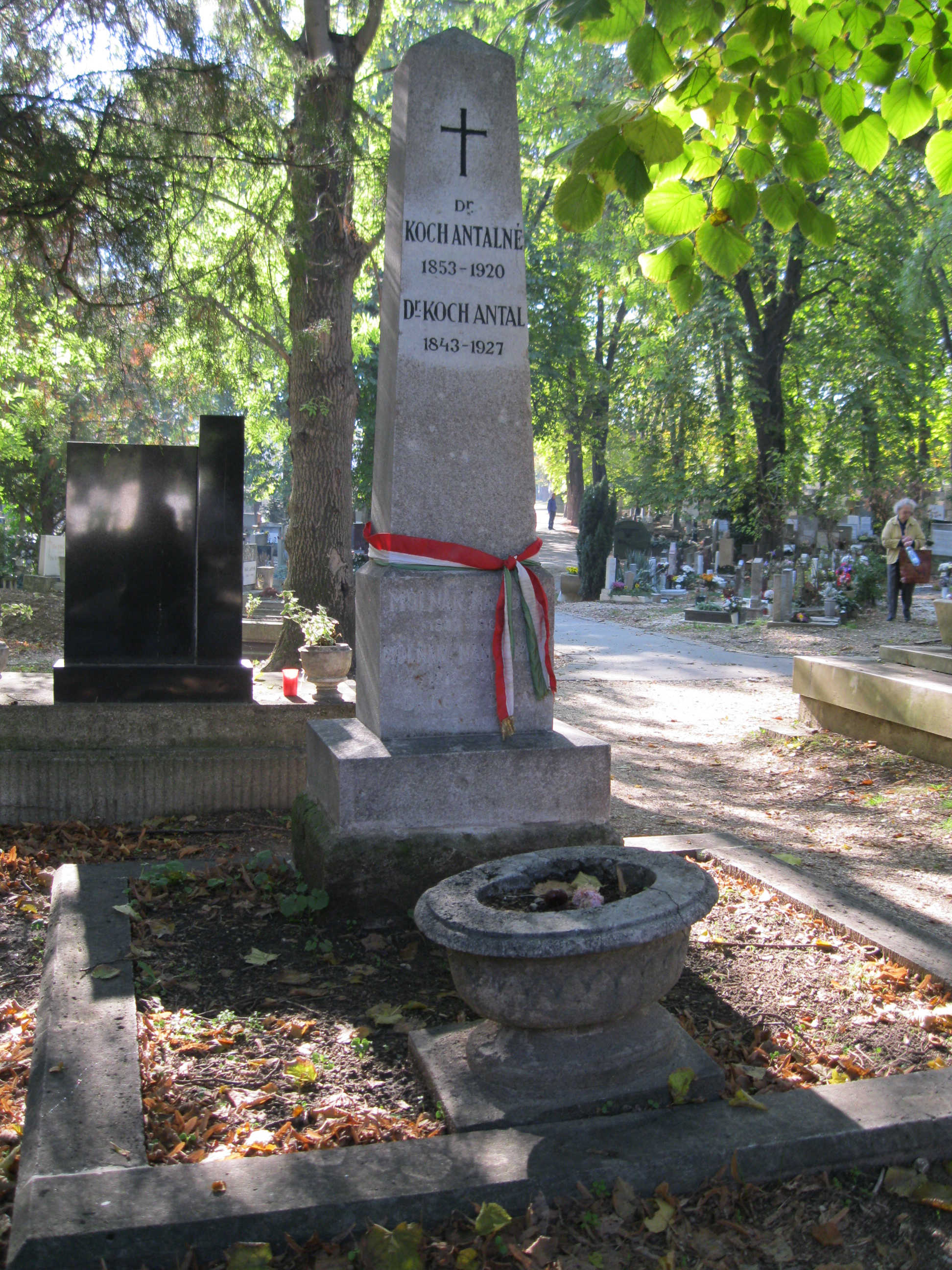 Tomb of Antal Koch in Farkasréti Cemetery [2/3-1-39/40]